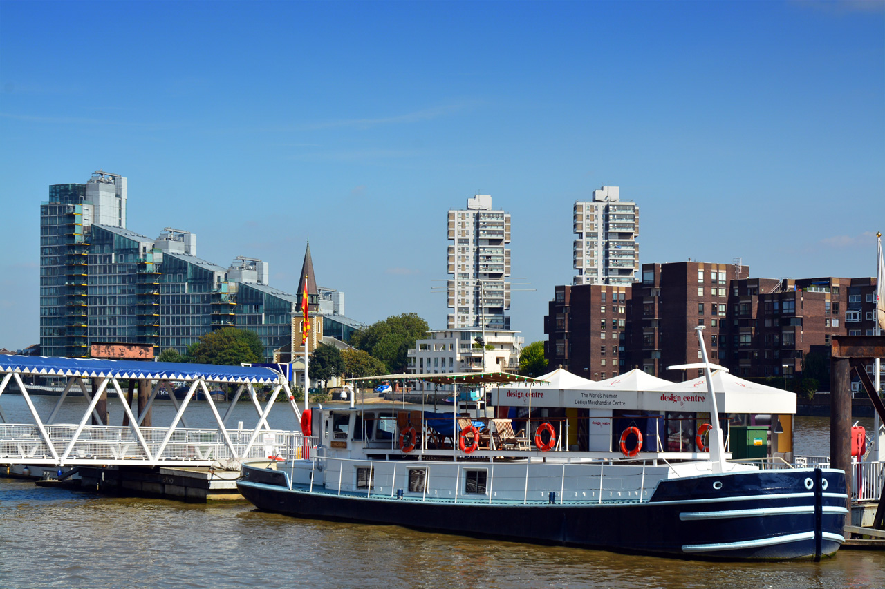 Pontoon of Chelsea Harbour Pier on the river Thames. London Borough of Hammersmith & Fulham. ( CC BY-SA - credit: Photo by George Rex.)